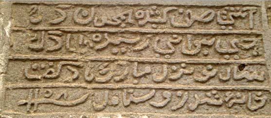 Persin inscription in Baku Ateshgah fire temple